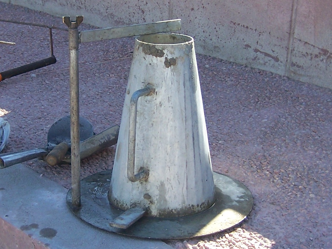 A "slump cone" used to measure the workability of fresh concrete